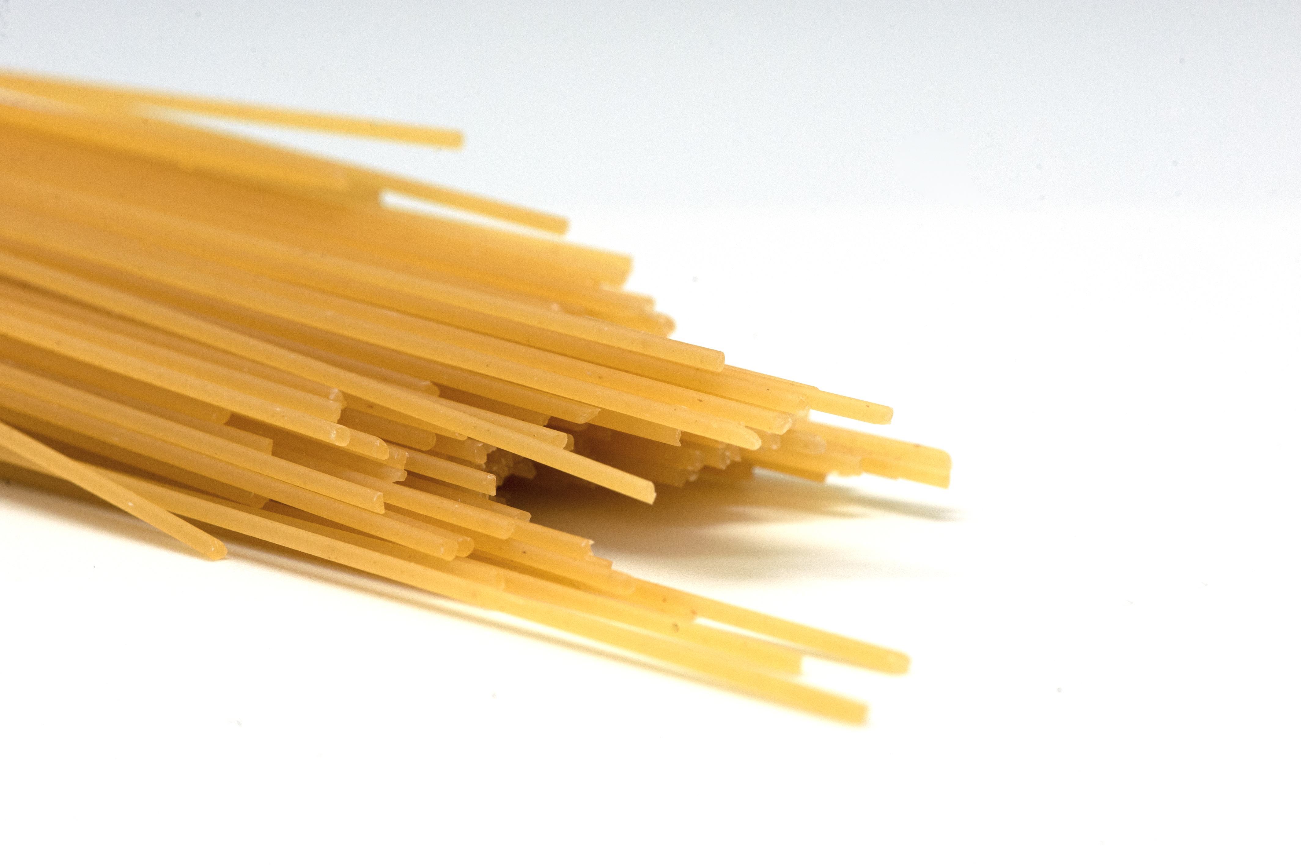 Spaghetti are a type of Italian pasta